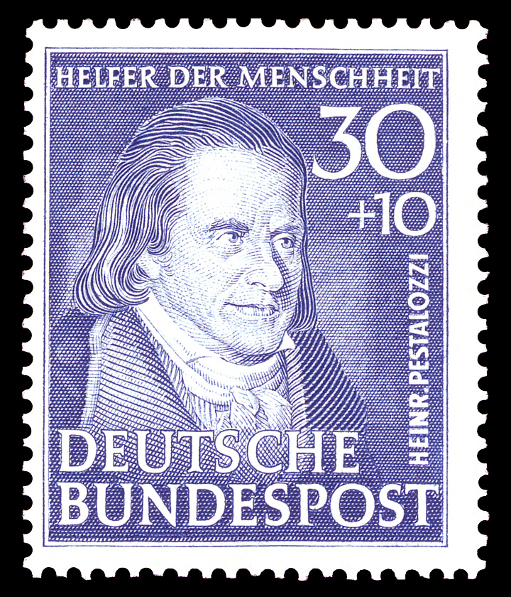 Social welfare stamp series 1951, Johann Heinrich Pestalozzi (1746-1827) Graphics by Hermann Zapf Ausgabepreis: 30+10 Pfennig First Day of Issue / Erstausgabetag: 23. Oktober 1951 Michel-Katalog-Nr: 146